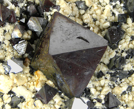 Magnetite Locality: Cerro Huañaquino, Potosí Department, Bolivia (Locality at ) Size: 8.4 x 5.2 x 3.2 cm. An excellent magnetite specimen from Cerro Huanaquino. Typically the Magnetite specimens from this locality are closely grown together, but these are rarely seen isolated octahedrons, only found in about 5% of specimens. These are also some of the finest quality crystals I've seen from this locality in a few years. The piece has fine, good size, razor sharp, lustrous, black, metallic, "Alpine-type" octahedra measuring up to 1.8 cm across, which is well above average from the locality. They are associated with several small octahedra and tiny cream colored Feldspar crystals on matrix. Virtually all of the crystals are undamaged.